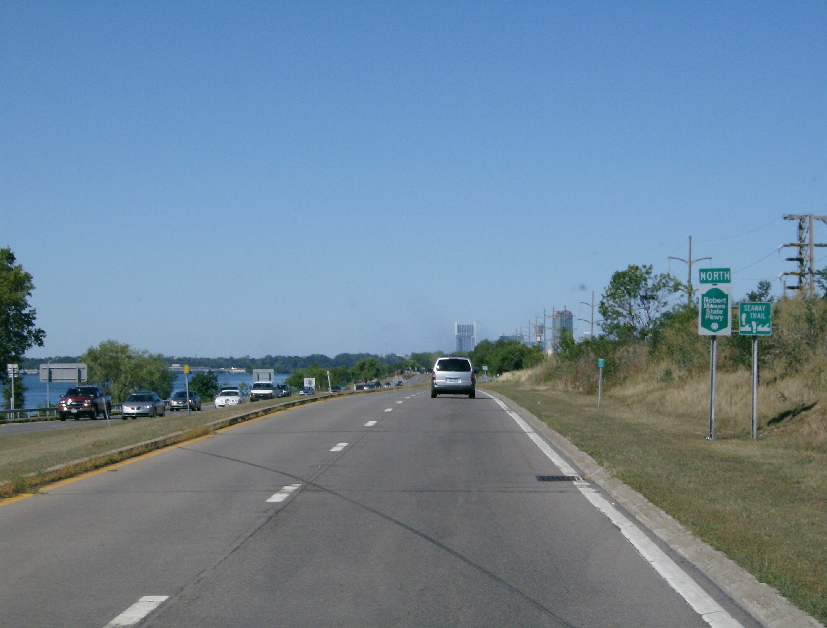 Approaching Niagara Falls on the northbound Robert Moses State Parkway, part of the Great Lakes Seaway Trail.